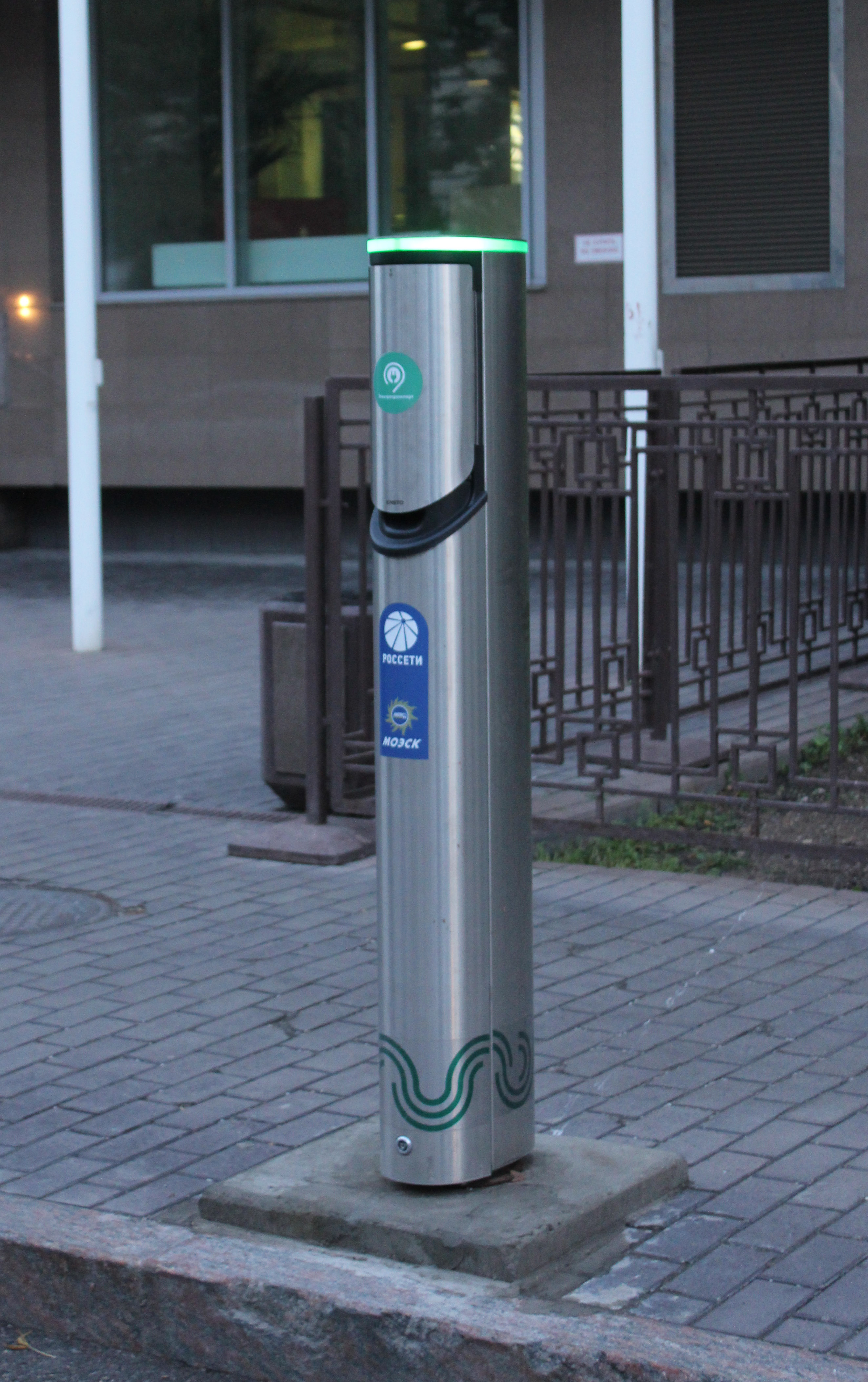 Electric vehicle charging station in Moscow